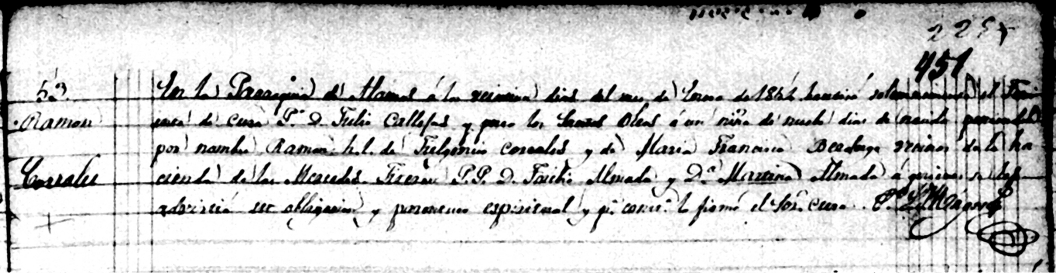 Image of the original baptism registration from 21 January 1854 for Ramon Corral, future Vice-President of Mexico.